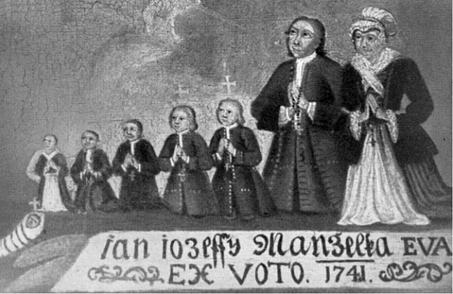 Jan Joseffi, philantropist and financier.